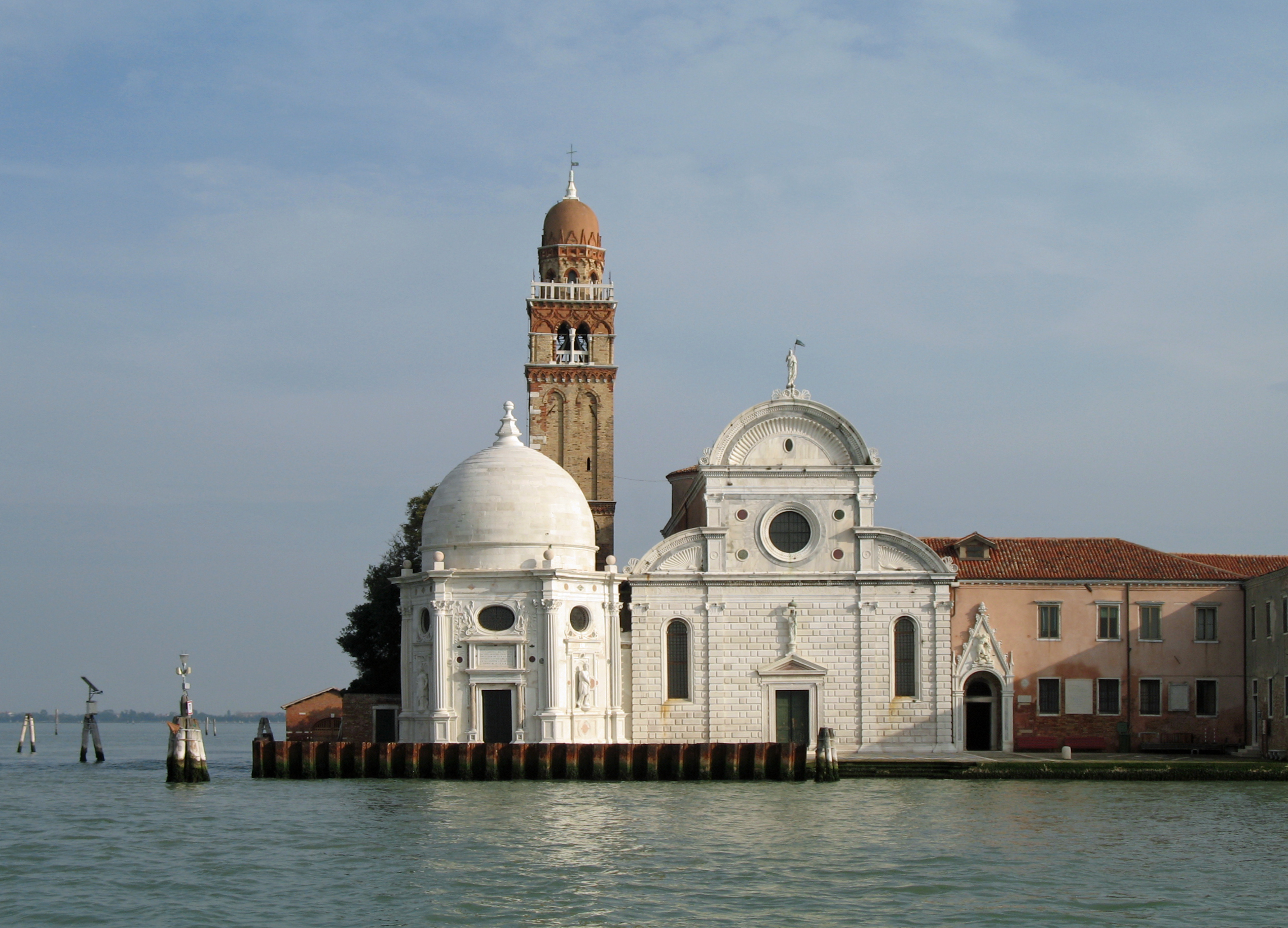 Venice (Italy): church of San Michele in Isola